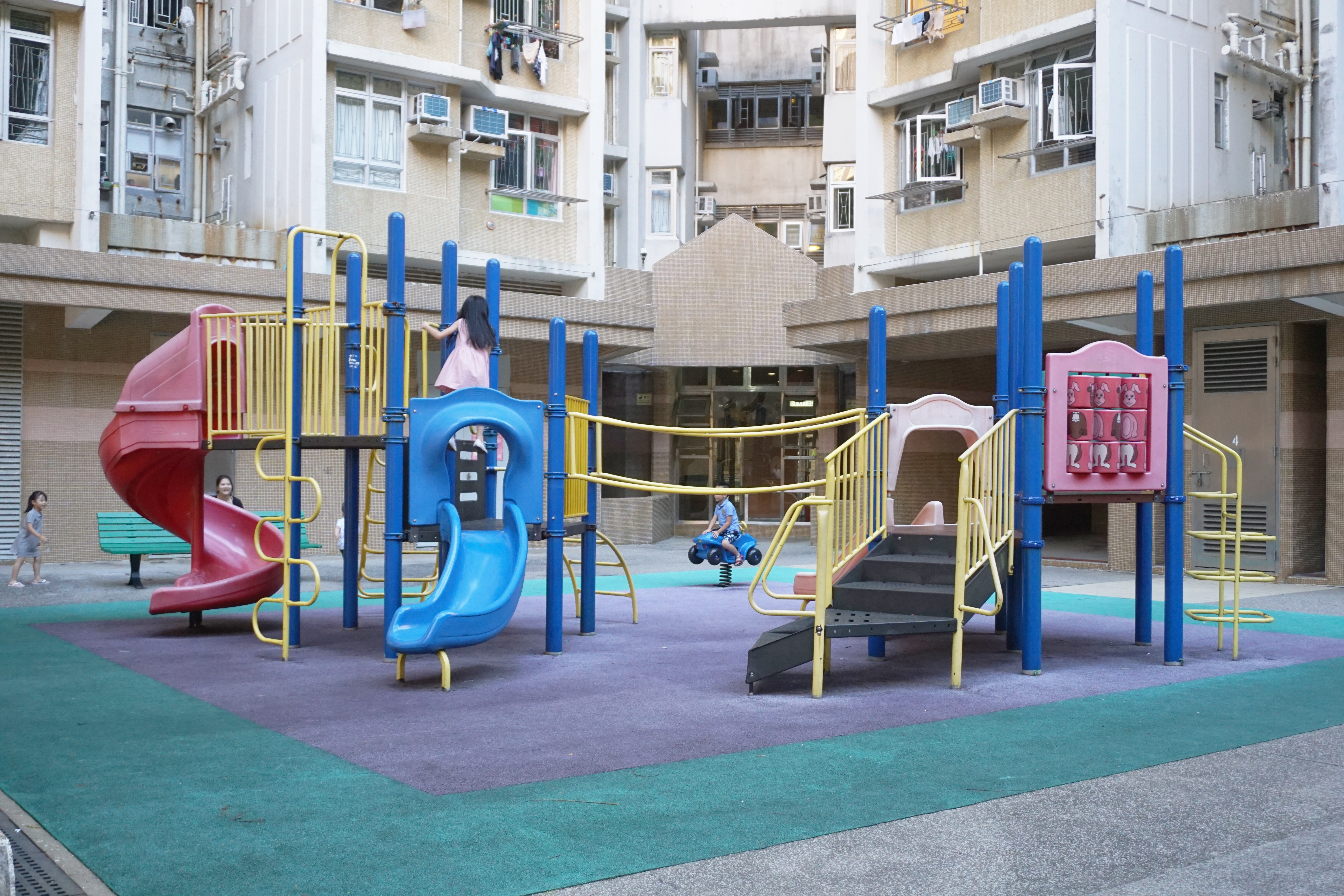 Hiu Lai Court in Sau Mau Ping, Hong Kong.